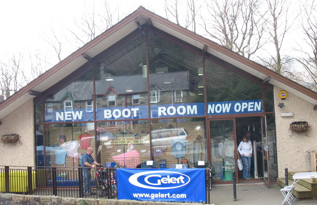 The New Boot Room at Y Warws Y Warws is a specialist stockist of Gelert outdoor equipment. Gelert has its headquarters at Porthmadog.